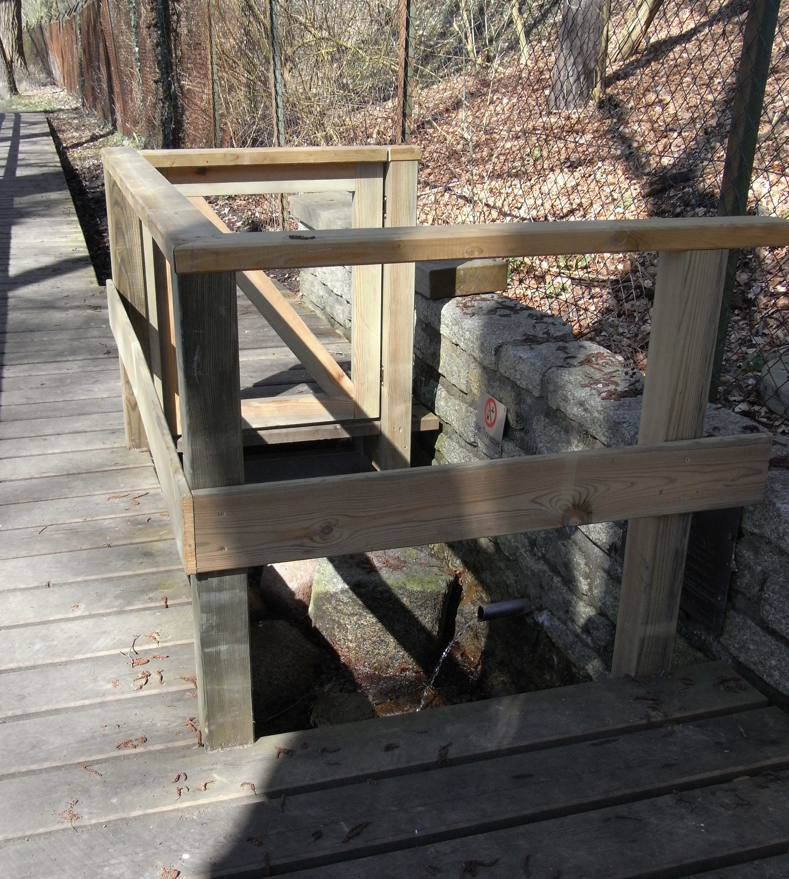 Easter spring in Geesthacht, Germany.